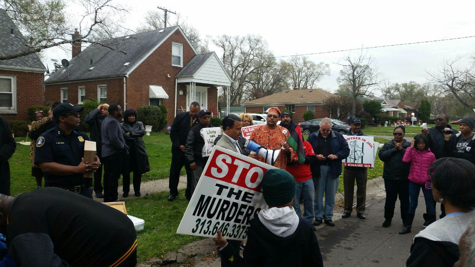 Ian Conyers participates in a peaceful rally for public safety.